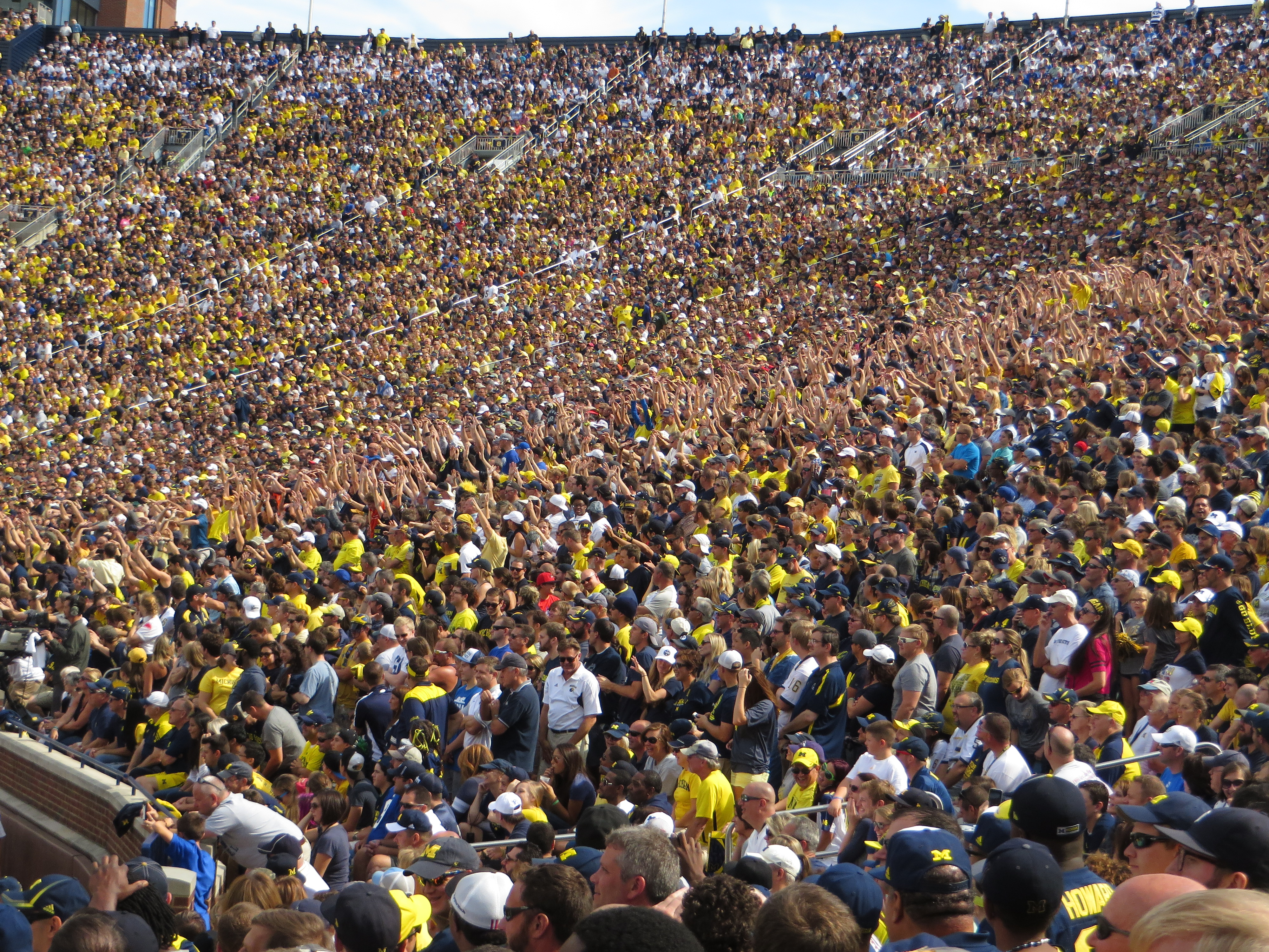 Michigan Stadium, nicknamed "The Big House", is the football stadium for the University of Michigan in Ann Arbor, Michigan. It is the largest stadium in the United States, the second largest stadium in the world and the 34th largest sports venue. Its official capacity is 107,601, but it has hosted crowds in excess of 115,000. Michigan Stadium was built in 1927 at a cost of $950,000 (equivalent to $12.9 million in 2016) and had an original capacity of 72,000. Prior to the stadium's construction, the Wolverines played football at Ferry Field. Every home game since November 8, 1975 has drawn a crowd in excess of 100,000, an active streak of more than 200 contests. On September 7, 2013 the game between Michigan and the Notre Dame Fighting Irish attracted a crowd of 115,109, a record attendance for a college football game since 1927, and an NCAA single-game attendance record, overtaking the 114,804 record set two years previously for the same match up. Michigan Stadium was designed with footings to allow the stadium's capacity to be expanded beyond 100,000. Fielding Yost envisioned a day where 150,000 seats would be needed. To keep construction costs low at the time, the decision was made to build a smaller stadium than Yost envisioned but to include the footings for future expansion. Michigan Stadium is used for the University of Michigan's main graduation ceremonies; Lyndon Johnson outlined his Great Society program at the 1964 commencement ceremonies in the stadium. It has also hosted hockey games including the 2014 NHL Winter Classic, a regular season NHL game between the Toronto Maple Leafs and the Detroit Red Wings with an official attendance of 105,491, a record for a hockey game. Additionally, a 2014 International Champions Cup soccer match between Real Madrid and Manchester United had an attendance of 109,318, a record crowd for a soccer match in the United States.